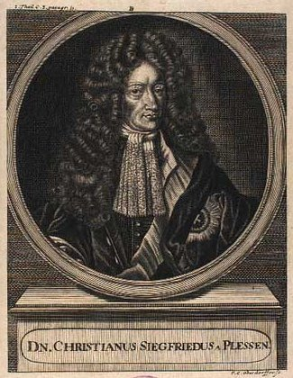 Portrait engraving of the German-born Danish civil servant and nobleman, minister of finance Christian Siegfried von Plessen (1646-1723)